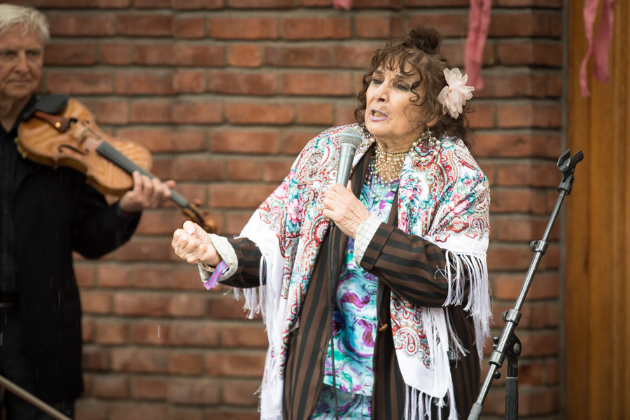 Raisa Bielenberg with Arve Tellefsen at the Borggården stage in the Vigeland Park. The concert was part of Piknik i Parken and took place on 23. June 2017 in Oslo. Lineup: Arve Tellefsen (violin), Unidentified (guitar), Raisa Bielenberg (vocal and dancer) and Anette Antal (dancer).